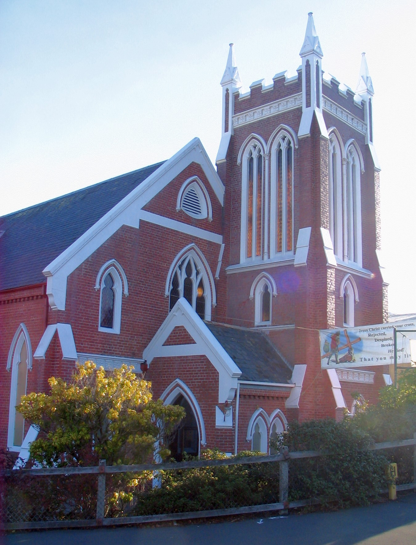 Kaikorai Presbyterian Church, Dunedin, New Zealand. Own photo taken from cnr Taieri Road and Nairn Street, looking west